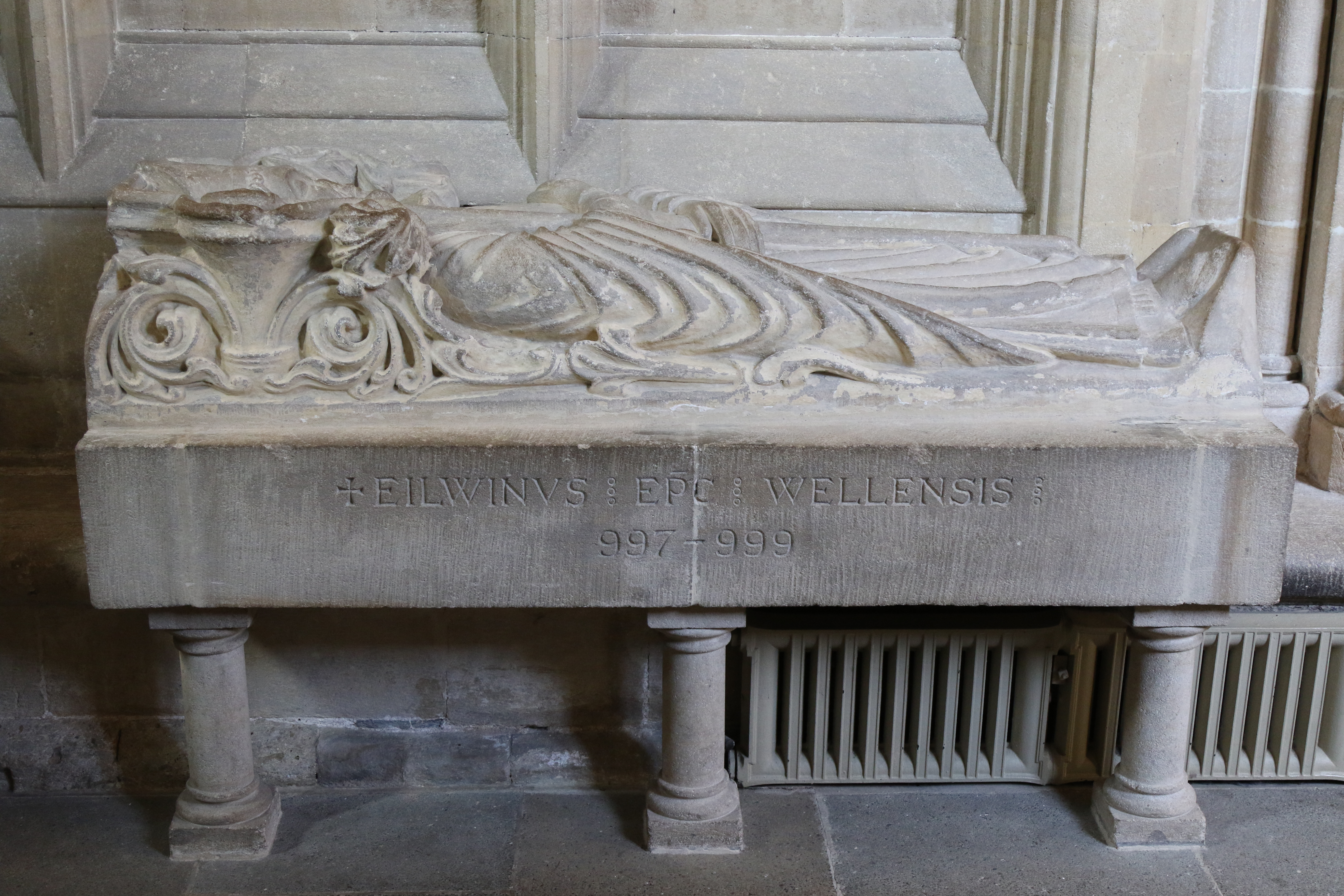 Ælfwine or Eilwinus, Bishop from 997 - 999